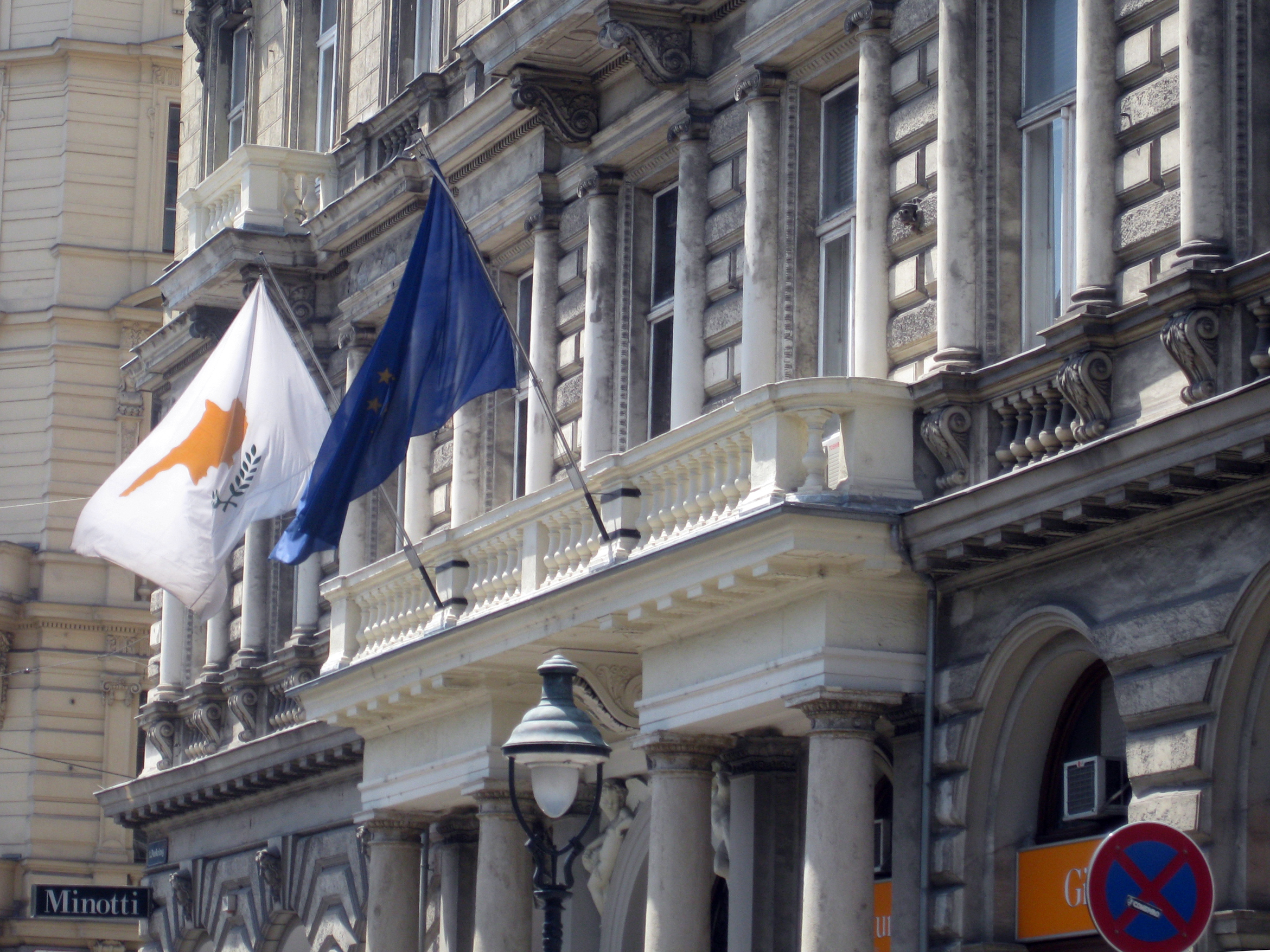 Cypriot Embassy in Vienna